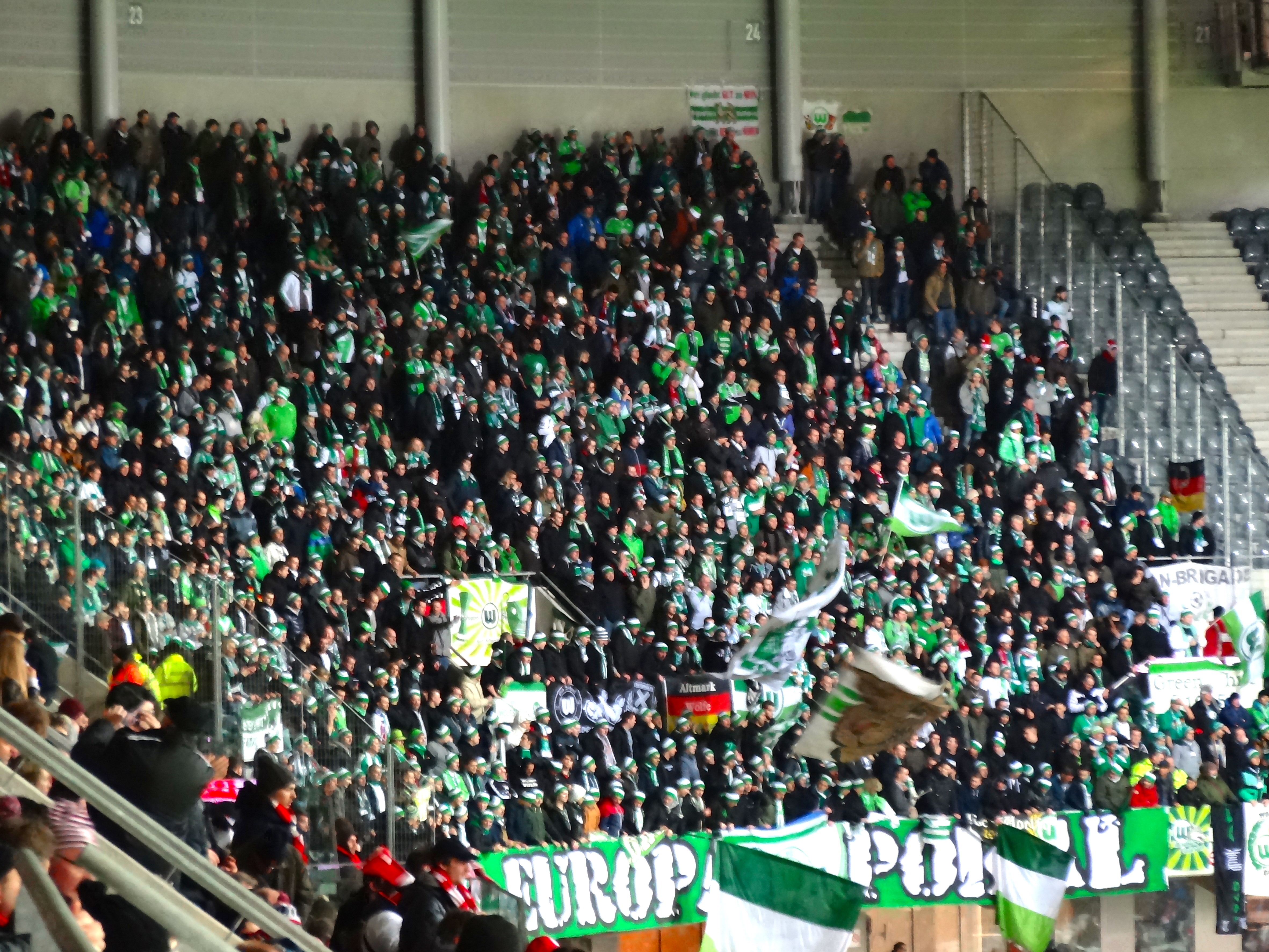 VFL Wolfsburg supporters (Stade Pierre Mauroy, Lille)